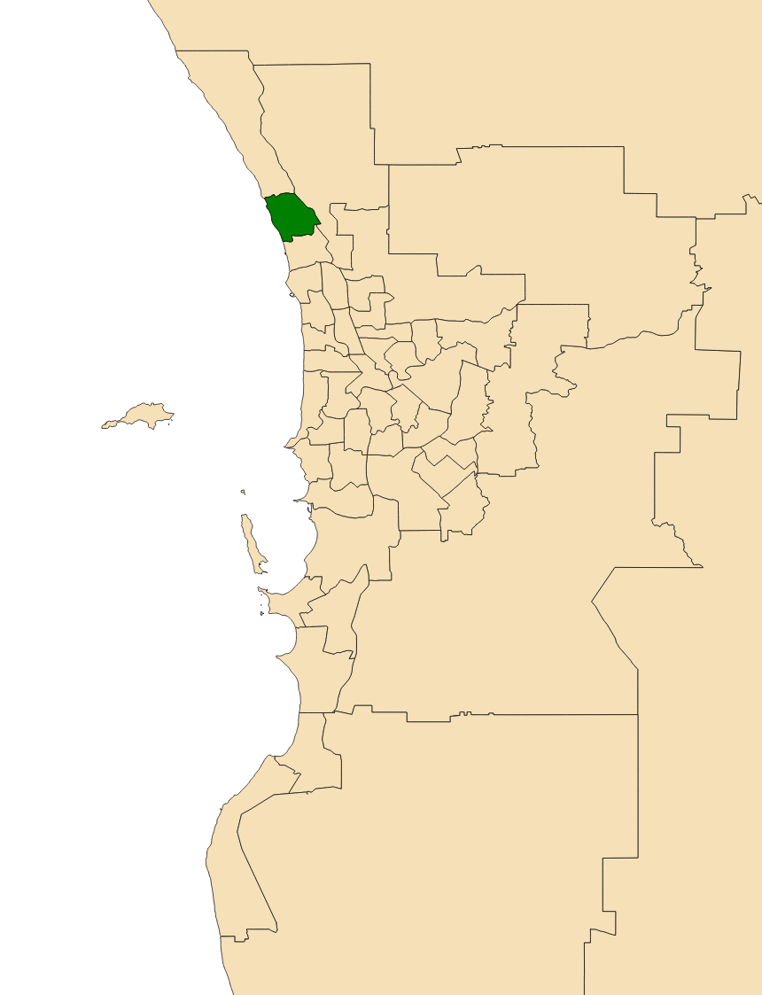 Location of the electoral district of Burns Beach in the Perth metropolitan area, Western Australia as of the 2017 WA state election.